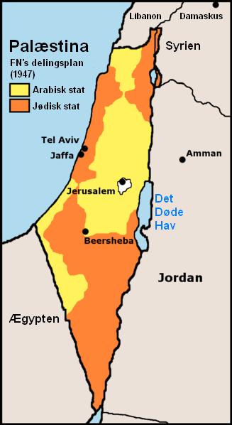 UN 1947 partition plan for Palestine